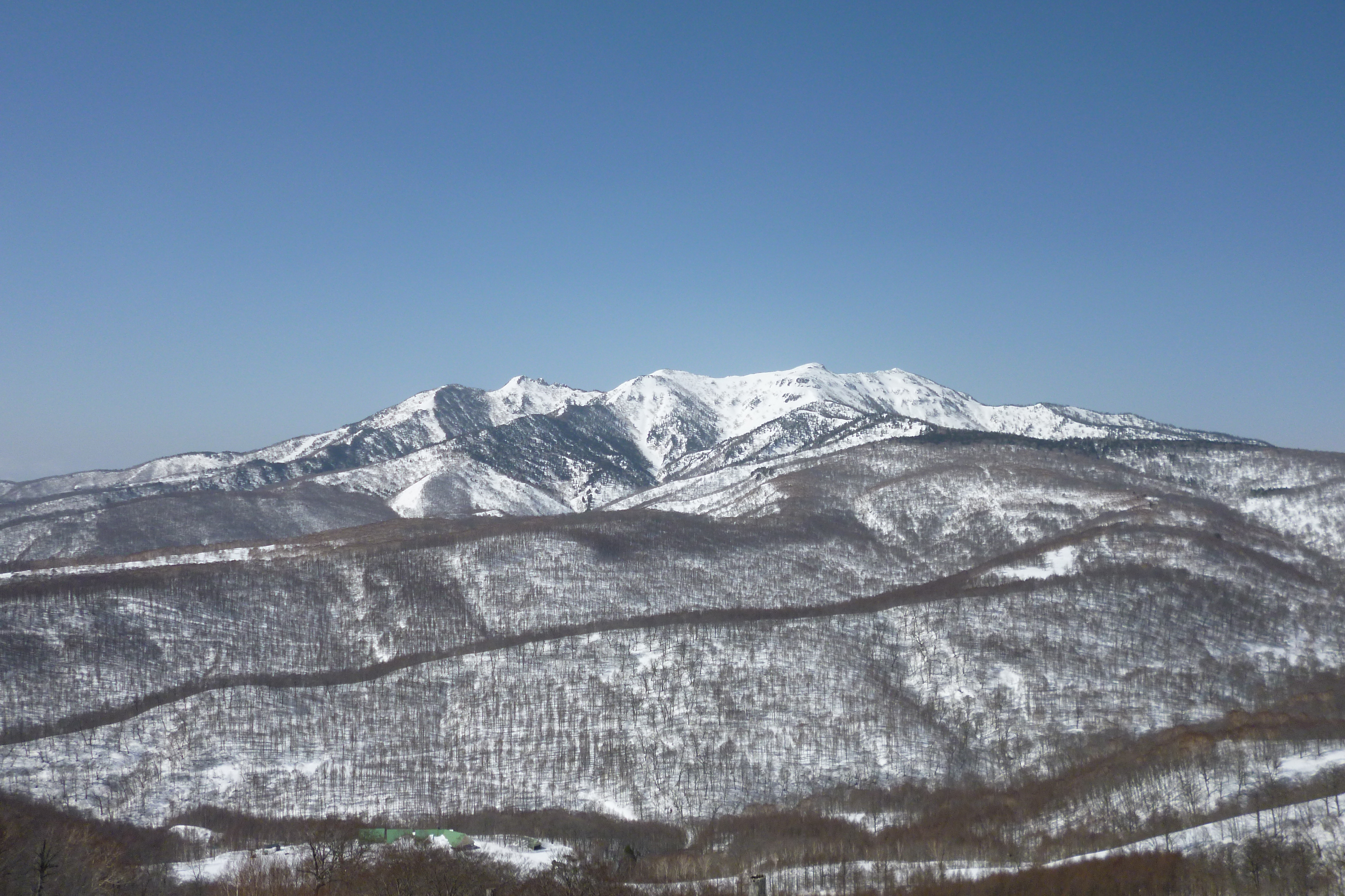 Mount Hotaka(also called Mount Joshu-Hotaka) in Gunma Prefecture, Japan. A view from the ski resort, White World Oze Iwakura in Katashina Vullage. Be careful that this mounntain is different from Mount Hotaka in Nagano Prefecture and Gifu Prefecture